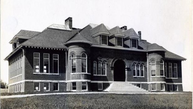 The Quincy Building at the Good Will-Hinckley School, Hinckley, Maine, now housing the LC Bates Museum.